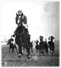 Thoroughbred filly, Rosedrop, winning the Epsom Oaks in June 1910.